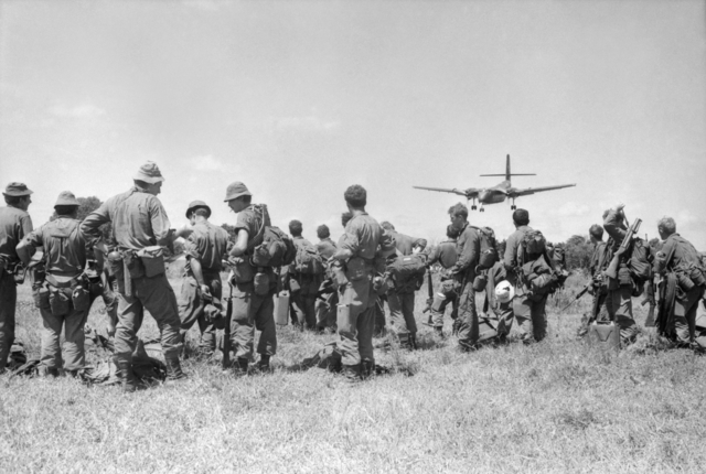 AWM image BEL/69/0741/VN. SOUTH VIETNAM. 1969-10. RAAF CARIBOU AIRCRAFT OF NO. 35 SQUADRON WERE USED TO AIR-LIFT AUSTRALIAN TROOPS FROM THE FIELD TO THEIR NUI DAT BASE. IT WAS THE FIRST TIME THE CARIBOU HAVE BEEN USED IN THIS ROLE BECAUSE THE TROOPS, MEMBERS OF 5TH BATTALION, THE ROYAL AUSTRALIAN REGIMENT (5RAR), HAD BEEN OPERATING NEAR THE VILLAGE OF XUYEN MOC, EAST OF THE TASK FORCE BASE, WHICH HAD A GRASS STRIP CAPABLE OF TAKING FIXED WING AIRCRAFT. WEARY TROOPS WAIT FOR THE AIRCRAFT AFTER A MONTH IN THE FIELD.